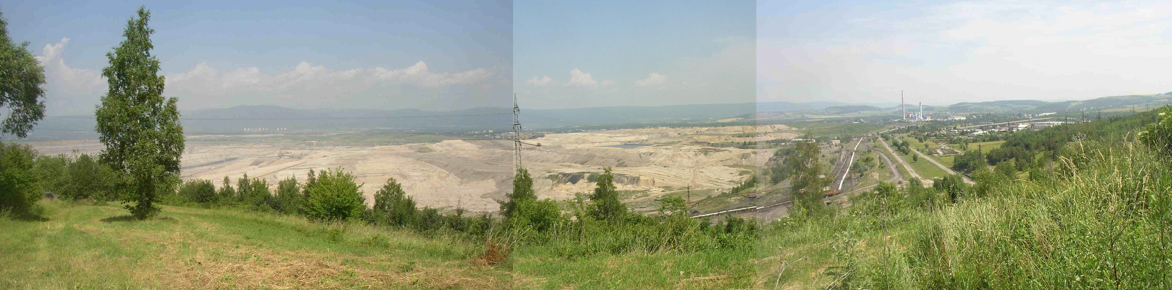 Composite panoramic view of brown coal open-pit mine (Lom Bílina) with adjacent Ledvice power plant near town of Bílina, Teplice District, Ústí nad Labem Region, Czech Republic.